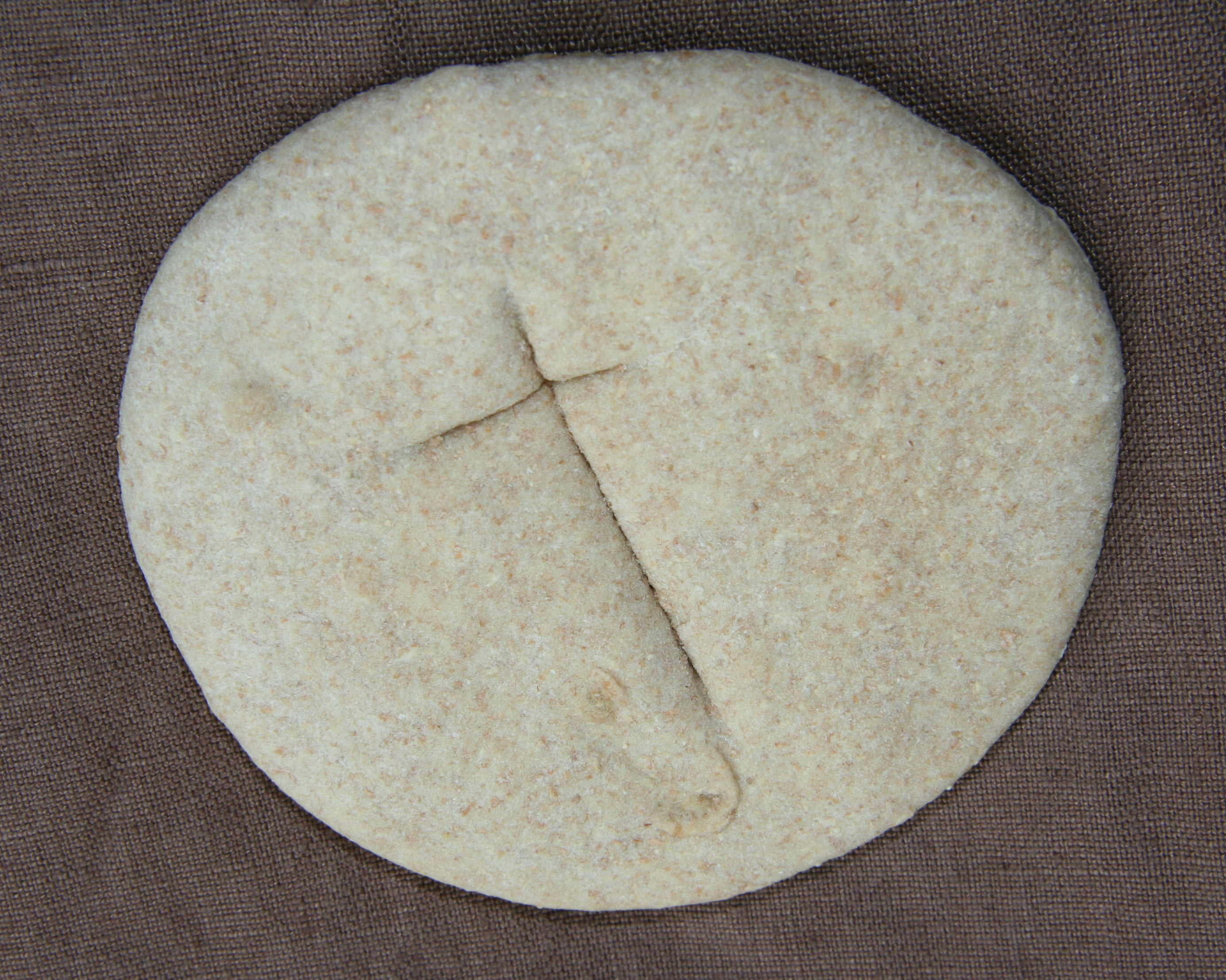 Sacramental bread prepared for Eucharist (but not used) in an Episcopal church in the United States